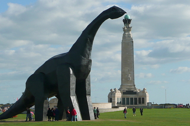 M'mm, I like the minty ones